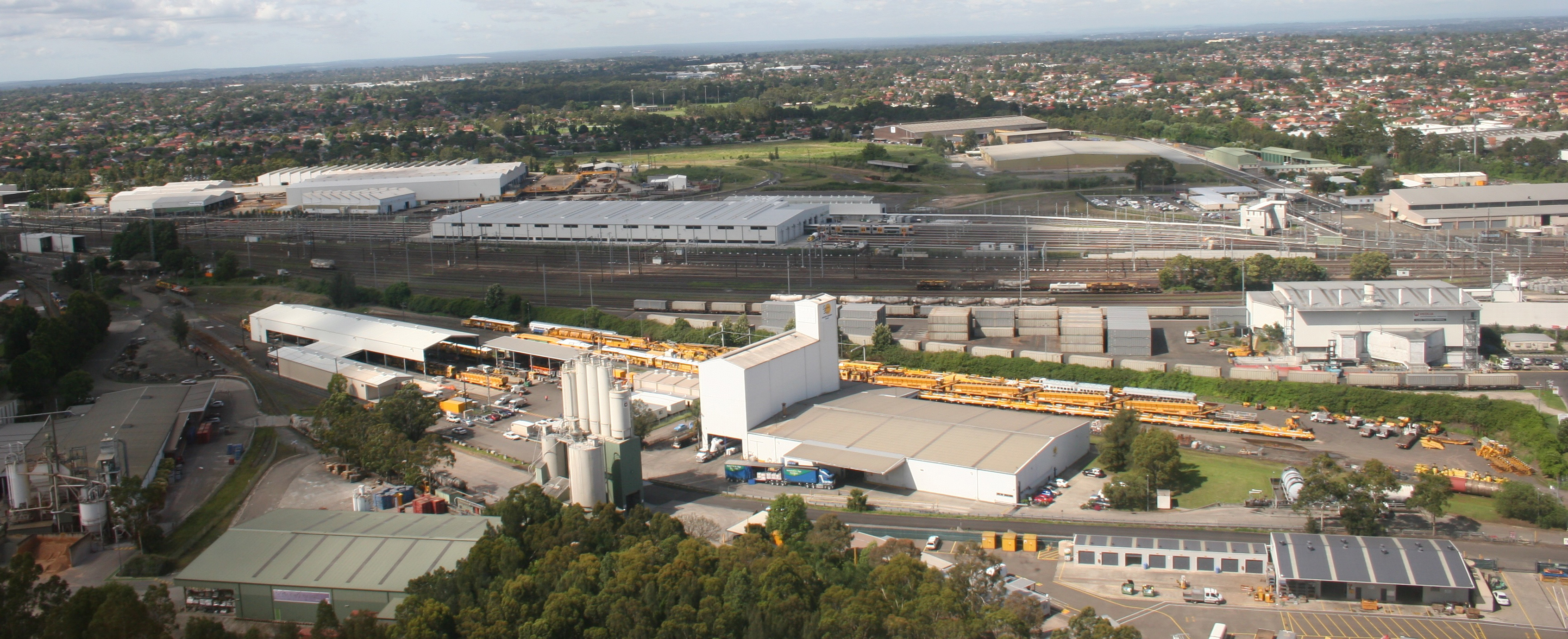 View of various railway maintenance facilities at Auburn. A crop of the original source file.